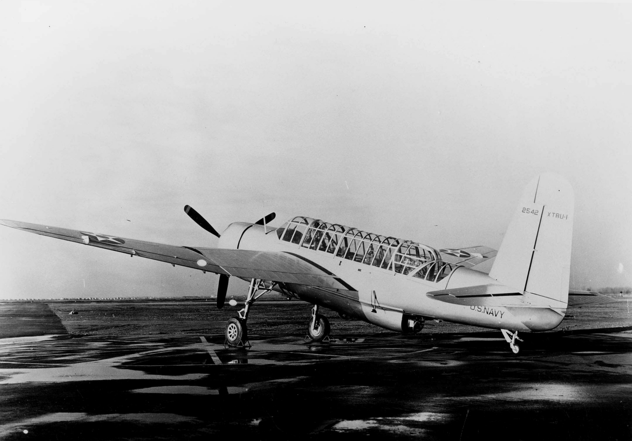 The U.S. Navy Vought XTBU-1 prototype (BuNo 2542), in 1941. The aircraft later became known as the TBY Sea Wolf. However, the original design was not by Consolidated Aircraft, but rather by Vought, who designed the then XTBU-1 to a 1939 U.S. Navy requirement. Its performance was deemed superior to the Grumman TBF-1 Avenger and the Navy placed an order for a 1,000 examples. Several unfortunate incidents intervened; the prototype was damaged in a rough arrested landing trial, and when repaired a month later was again damaged in a collision with a training aircraft. Once repaired again, the prototype was accepted by the Navy. However, by this time Vought was heavily over-committed to other contracts, especially for the F4U Corsair fighter, and had no production capacity. It was arranged that Consolidated-Vultee would produce the aircraft (as the TBY), but this had to wait until the new production facility in Allentown, Pennsylvania was complete, which took until late 1943. The production TBYs were radar-equipped, with a radome under the right-hand wing. The first one flew on 20 August 1944. By this time, though, the TBF equipped every torpedo squadron in the Navy, and there was no need for the TBY. Orders were cancelled after production started, and the 180 built were used for training.